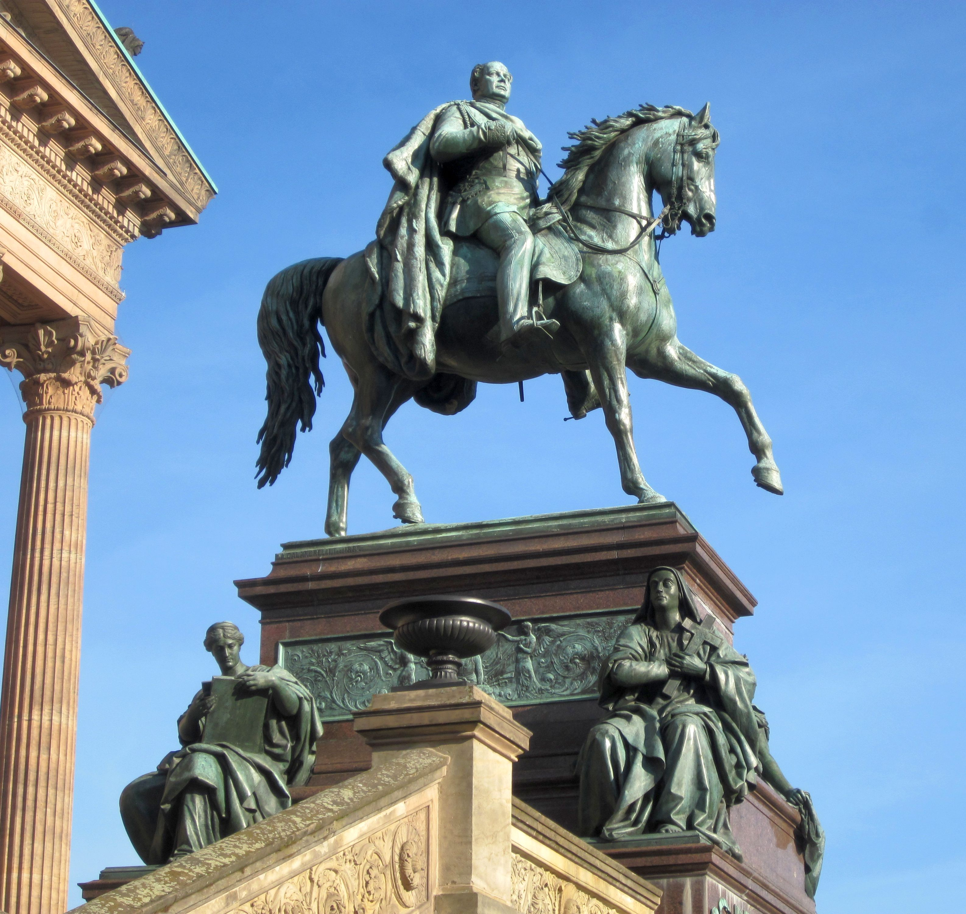 Equestrian statue of Frederick William IV on the ouside staircase of Alte Nationalgalerie on Museum Island in Berlin. it was created from 1875 to 1886 by Alexander Calandrelli; an early design was by Gustav Bläser.